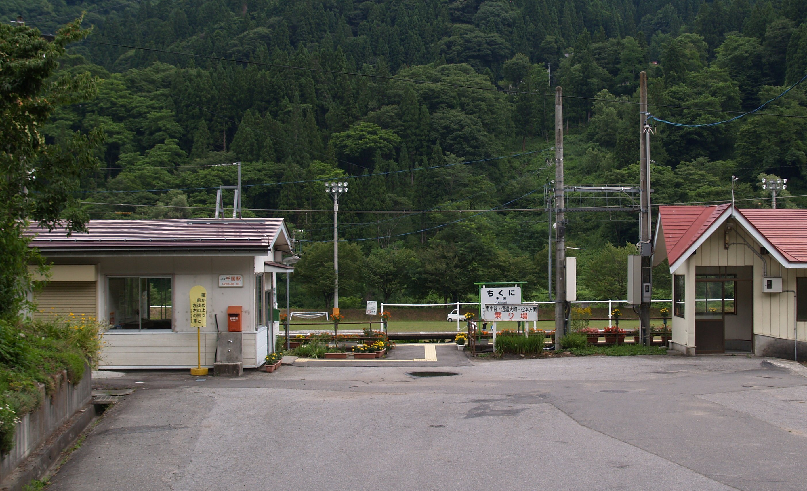 Chikuni Station